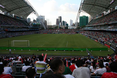 The Stadium